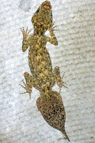 Broad Tailed Gecko, Chatswood West, Australia - Phyllurus platurus